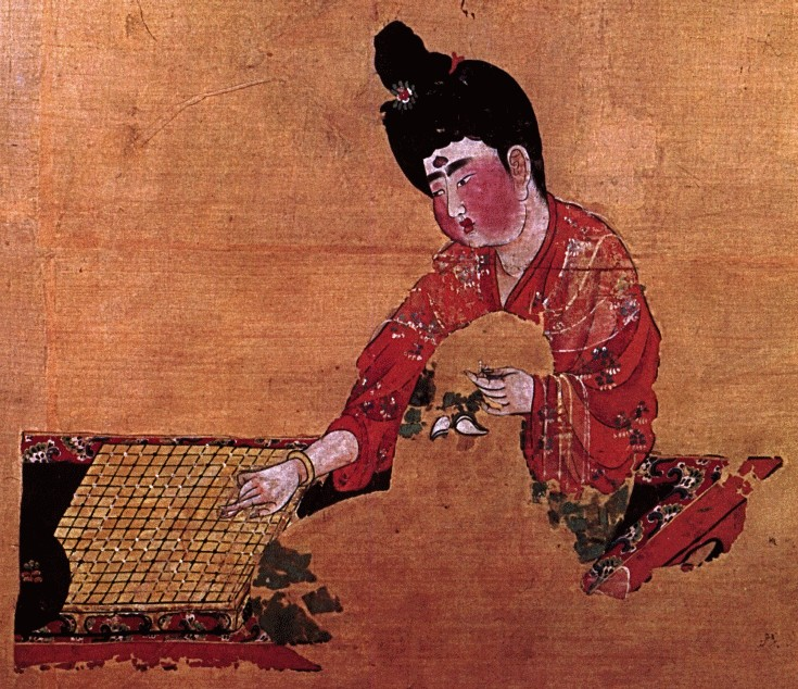 The earliest Go theme painting ever discovered in China (Tang Dynasty).